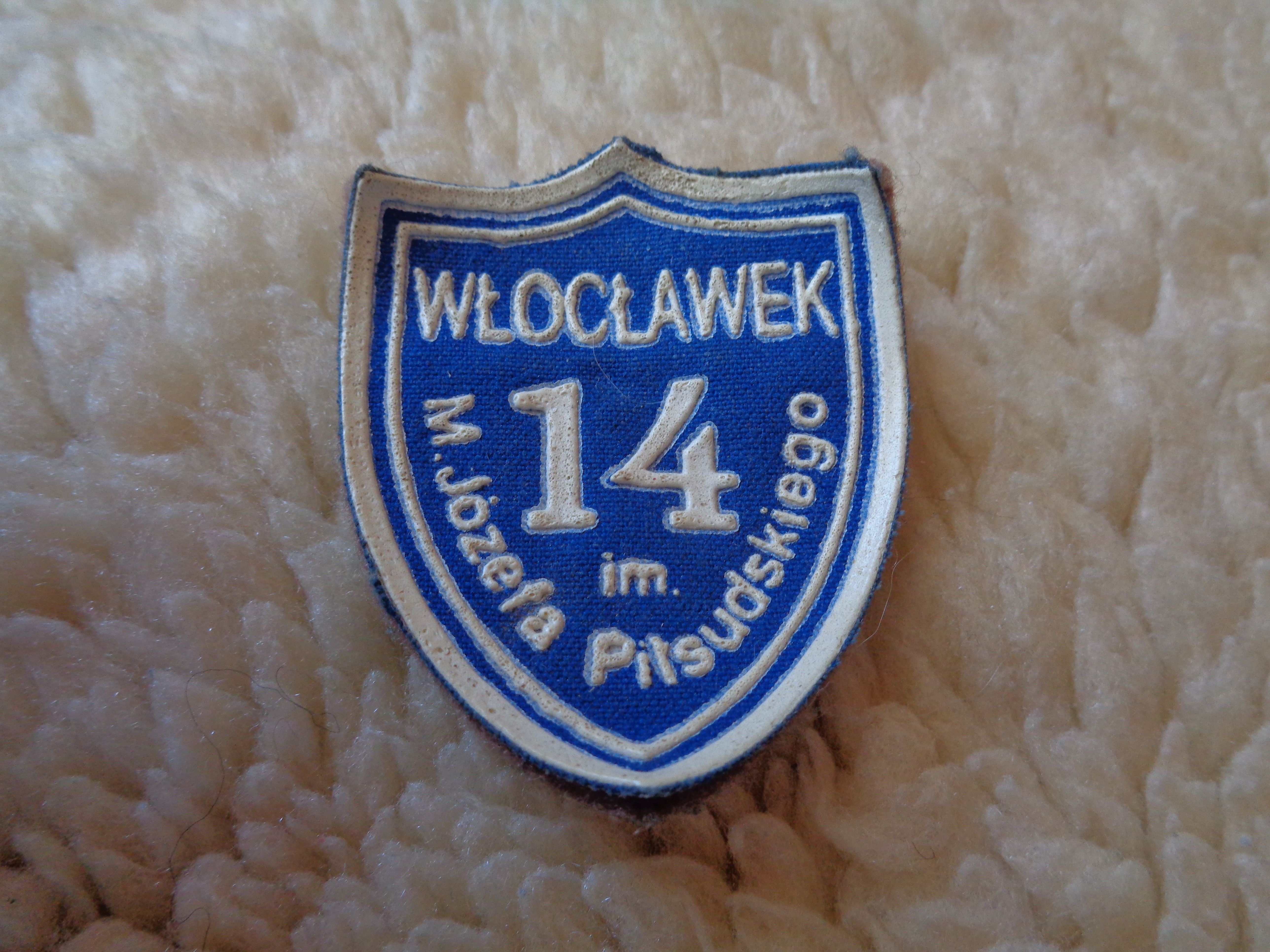 School coat of arms of Primary School no 14 named of Marshal Józef Piłsudski in Włocławek, give out in 2001 year.